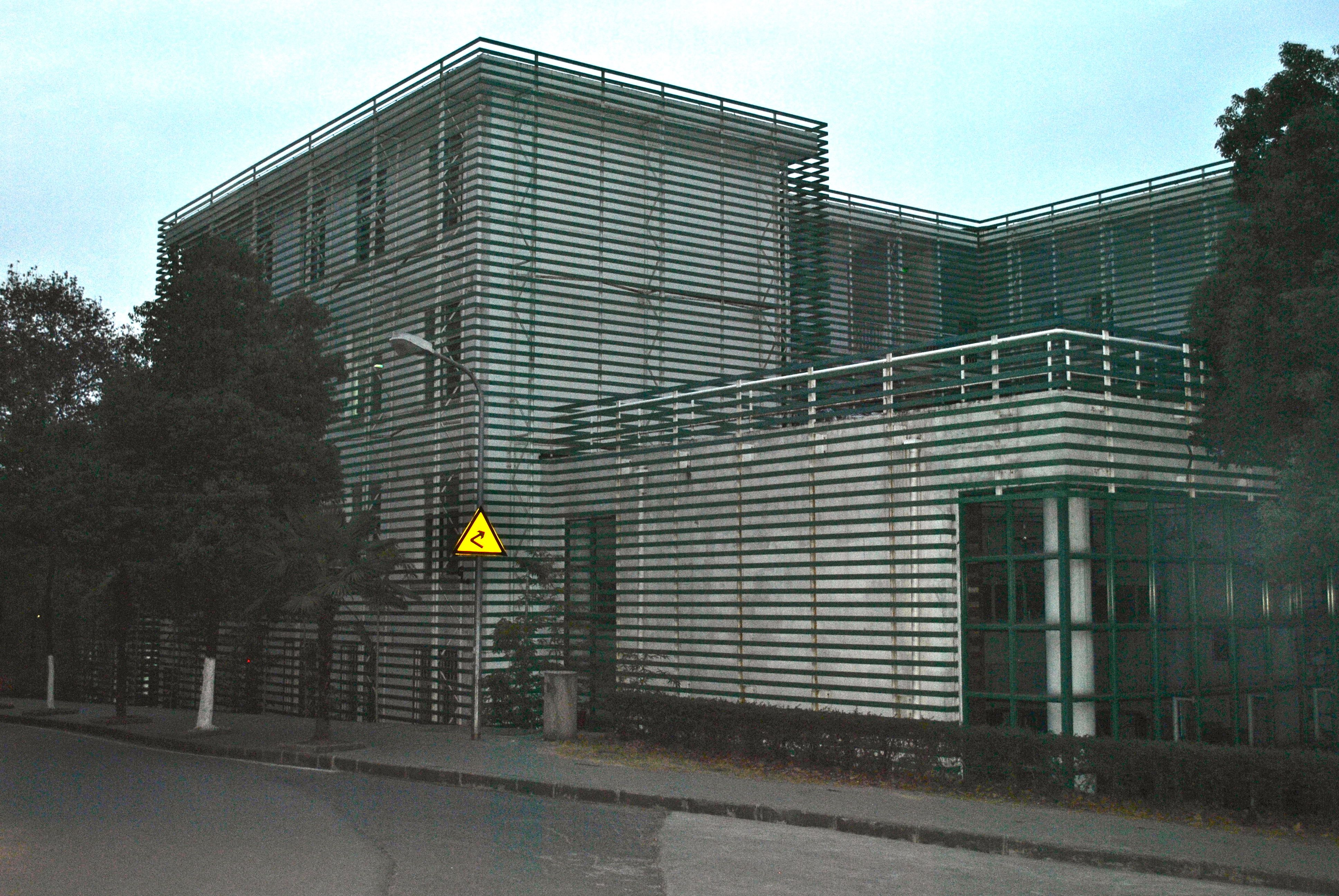 school of urban design, Wuhan University